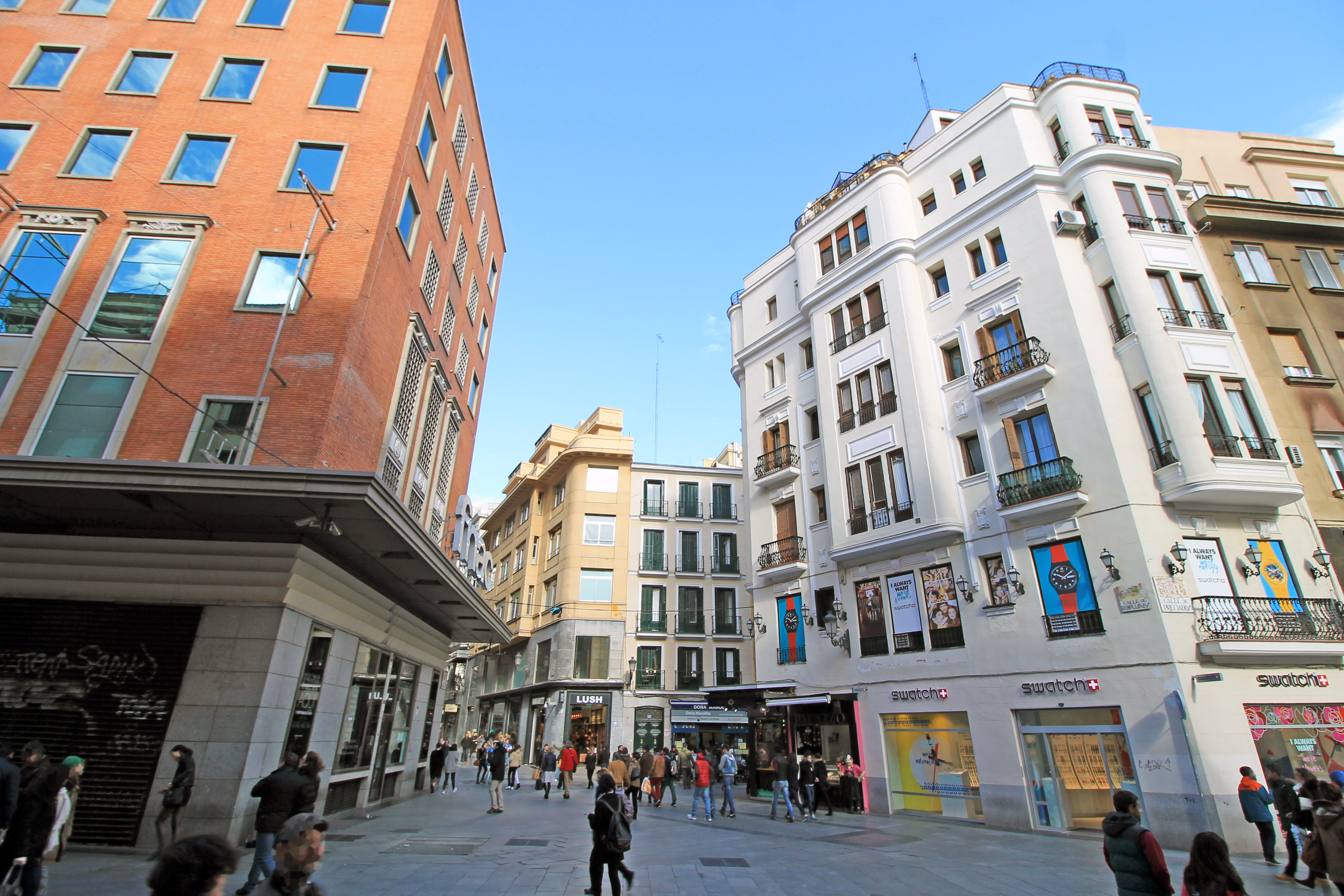 View of Calle de Rompelanzas (street) in Madrid (Spain) from Calle de Preciados (street). Left: Fnac Callao.